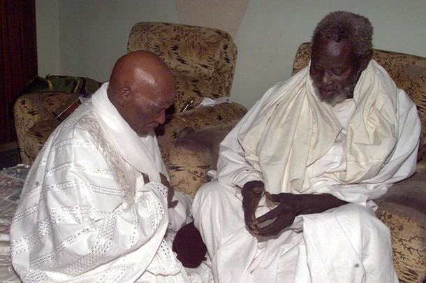 Serigne Saliou Mbacke